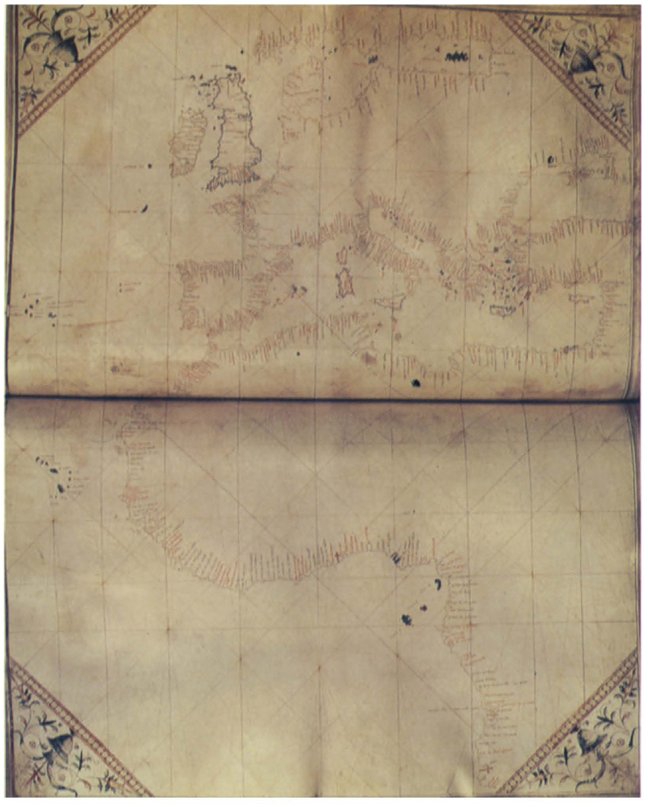 Summary map (p.36) of the Cornaro Atlas, an anonymous Venetian atlas from c.1489. Held (Egerton MS.73) by the British Library in London.